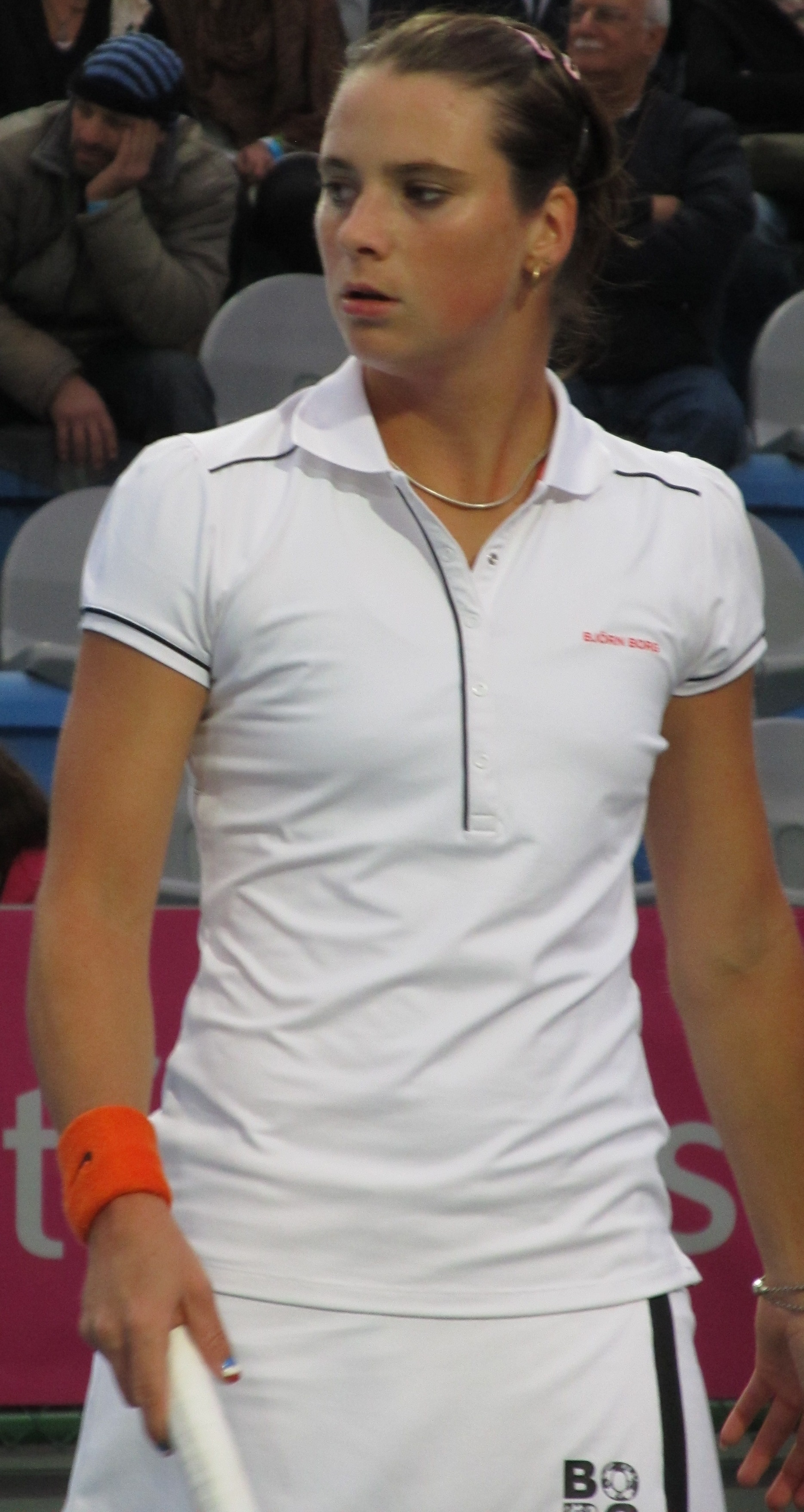 The tennis player Bibiane Schoofs of the Netherlands during her match against Julia Glushko of Israel in the 1st day of Fed Cup Group I 2012 Europe/ Africa in Eilat, Israel